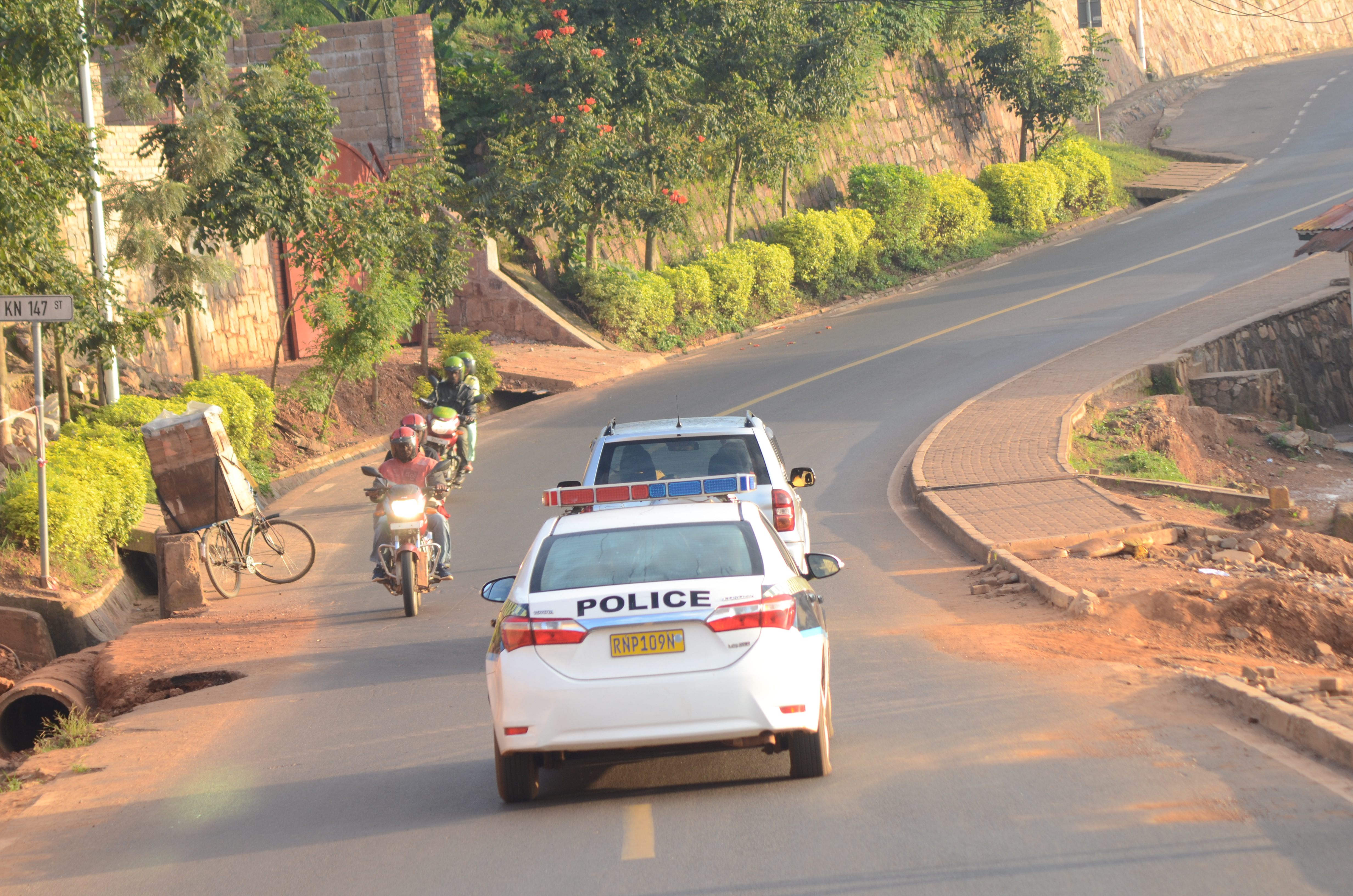 Kinyarwanda: Cyane This is an image with the theme "Africa on the Move or Transport" from: Rwanda